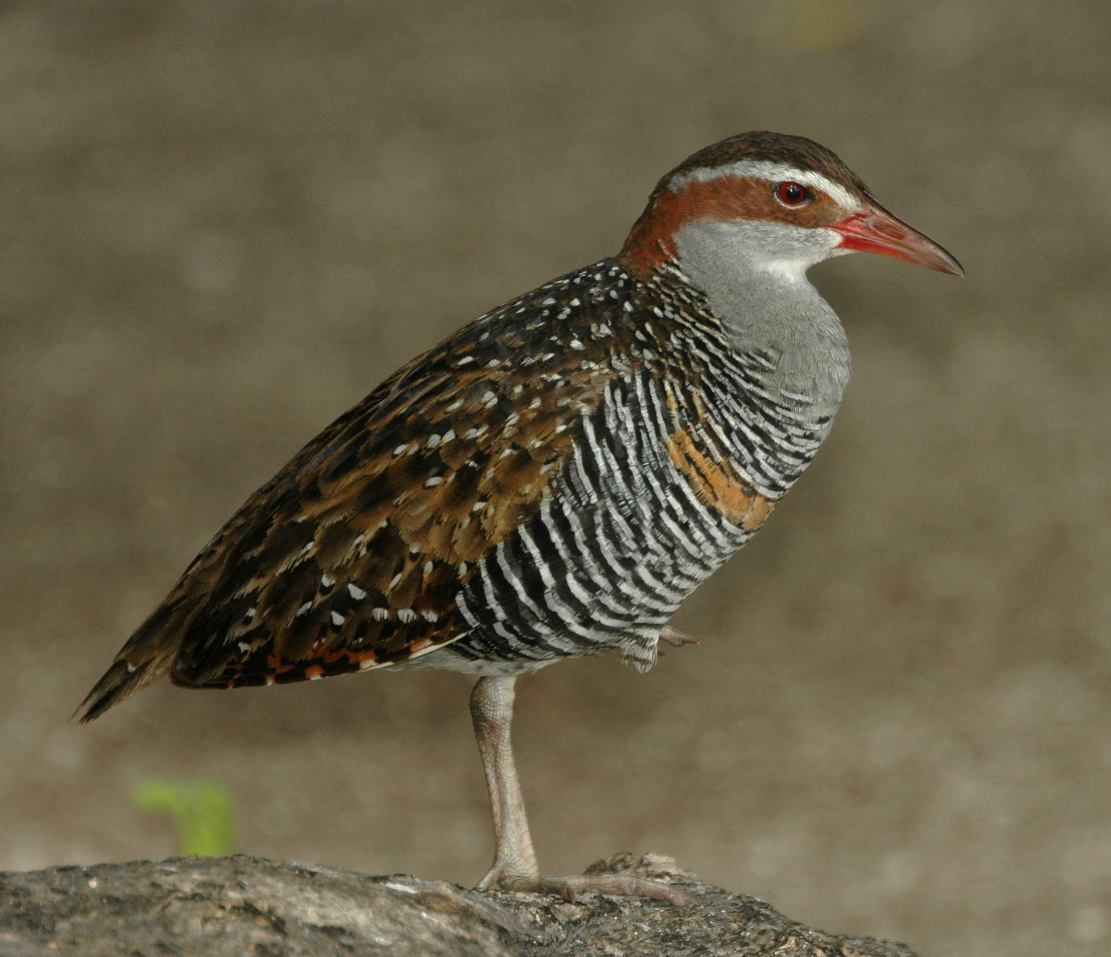 Buff-banded Rail (Gallirallus philippensis) Lady Elliot Island, SE Queensland, Australia